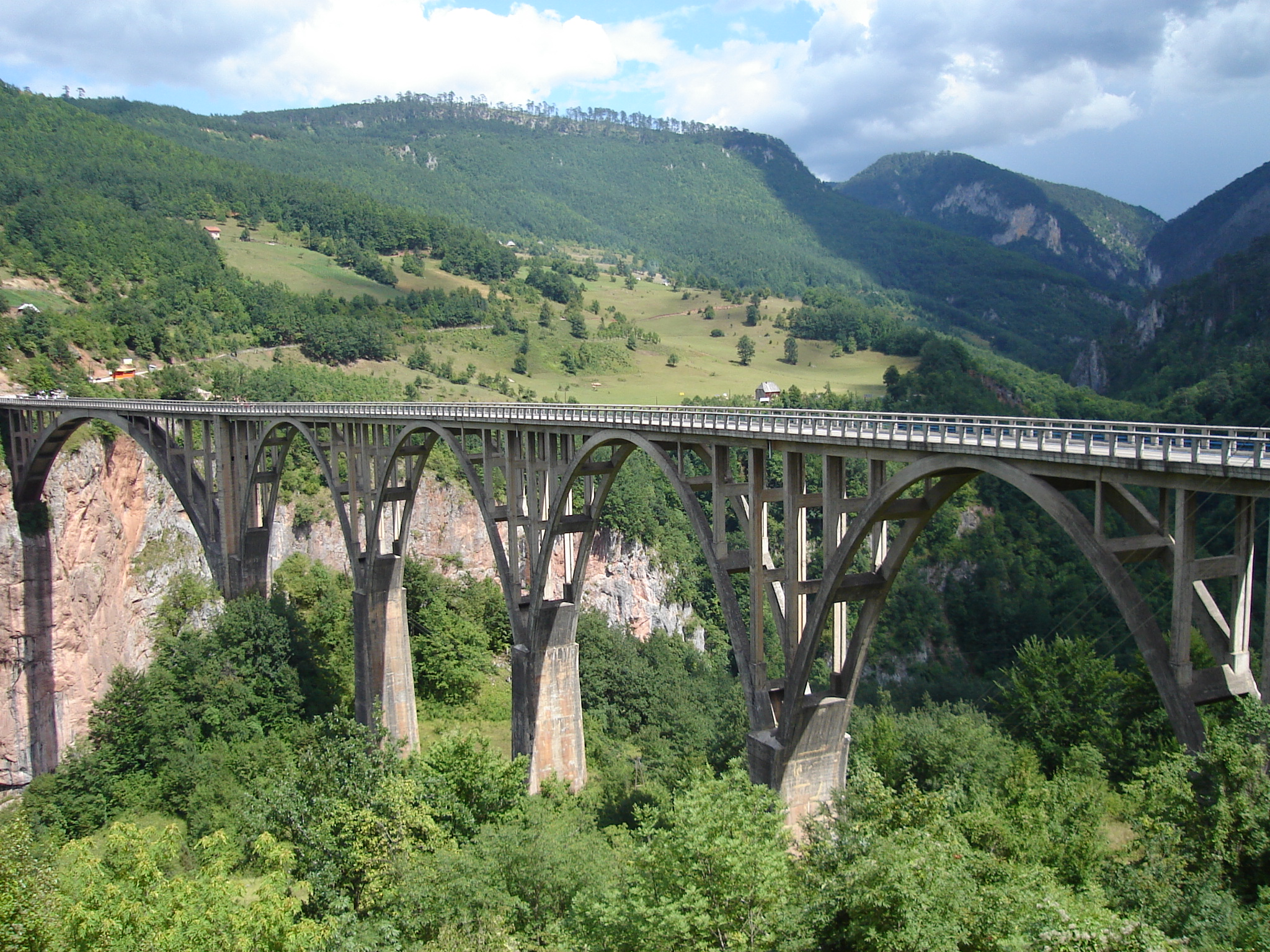 Đurđevića Tara Bridge over the river Tara in Montenegro near the city of Žabljak